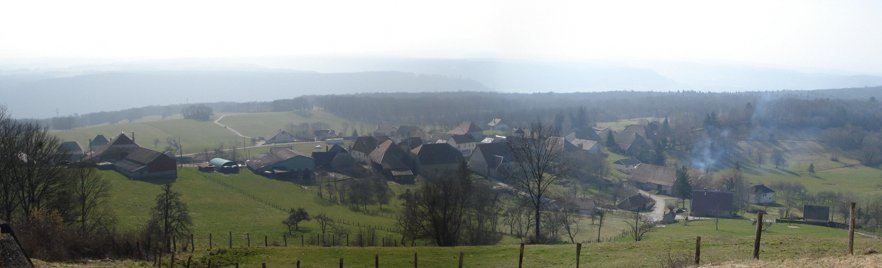 Village of Malbrans from the Virgin, Doubs, France